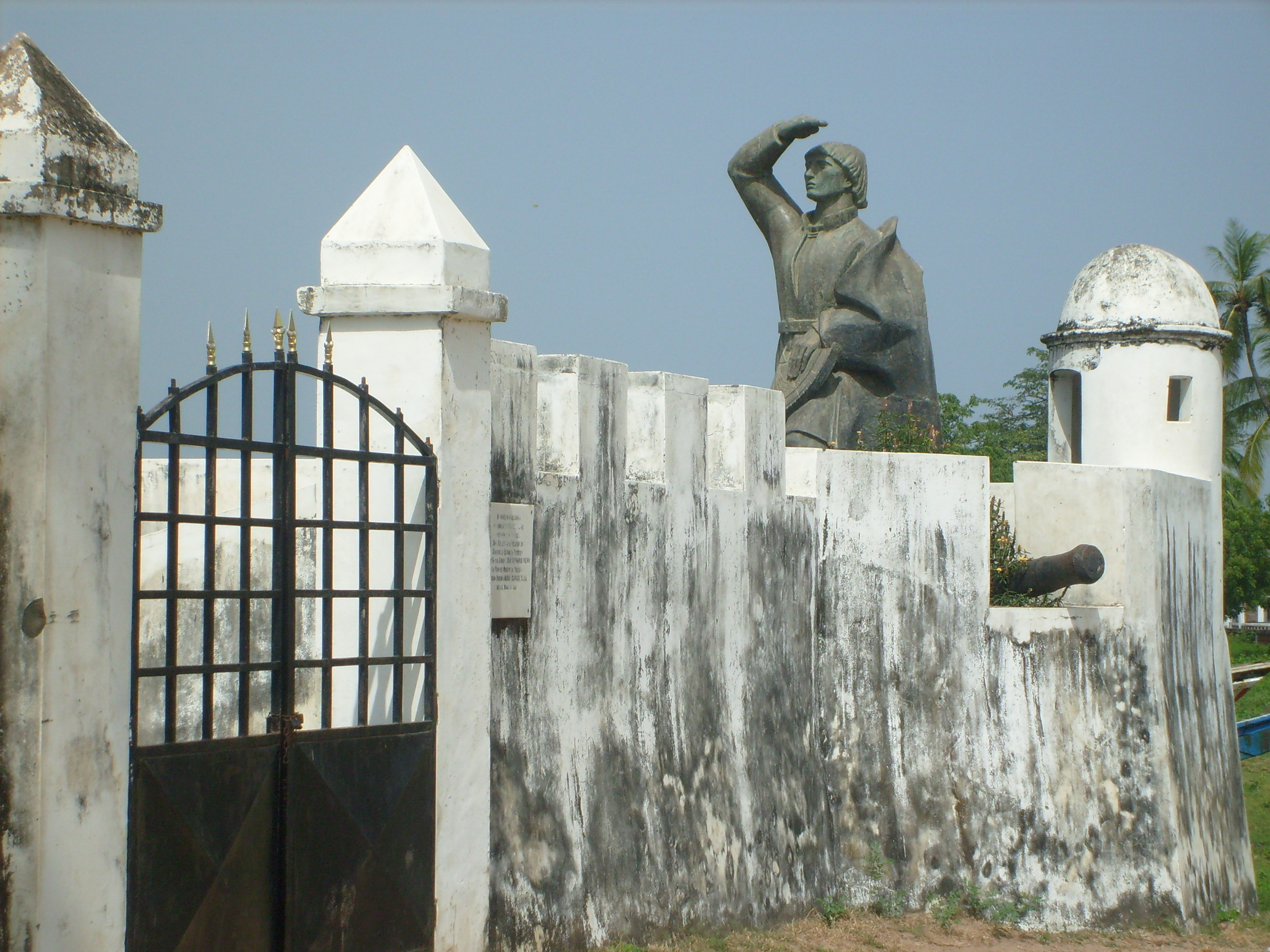 Fortress of Cacheu, Guinea-Bissau